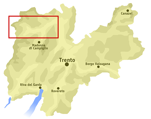 Position of the valley Val di Sole